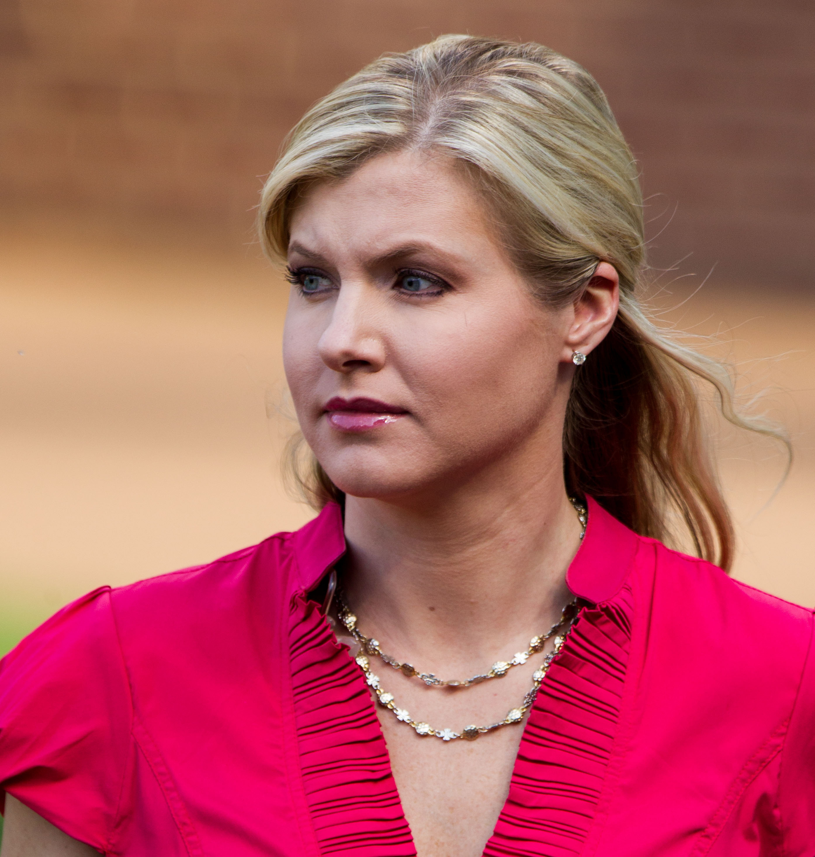 Comcast SportsNet anchor and reporter Julie Donaldson before the Red Sox at Orioles game on May 22, 2012.